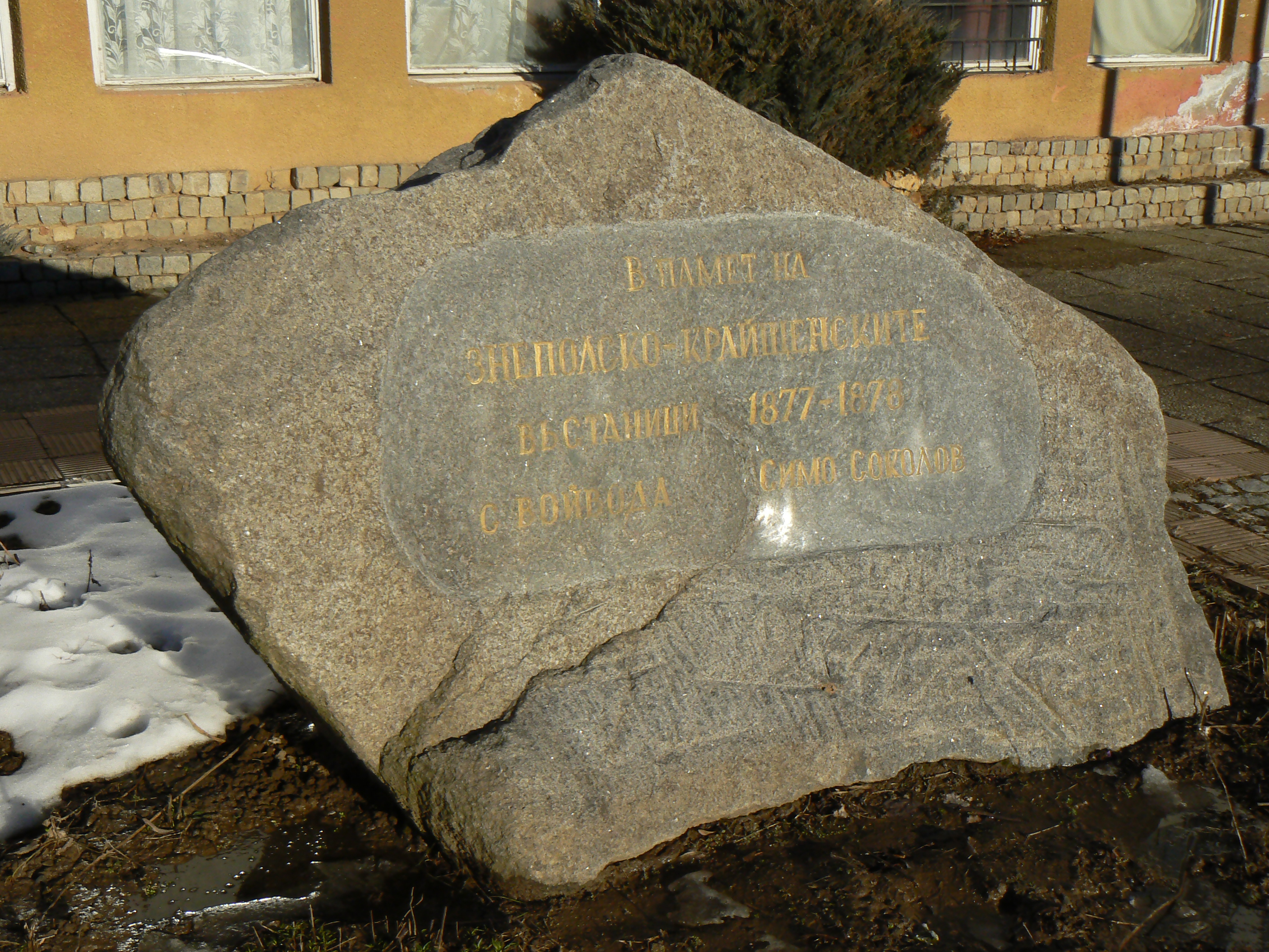 Memorial stone for the victims of the Znepole-Kraishte Uprise in 1877-78, led by Simo Sokolov. The village of Treklyano, Bulgaria